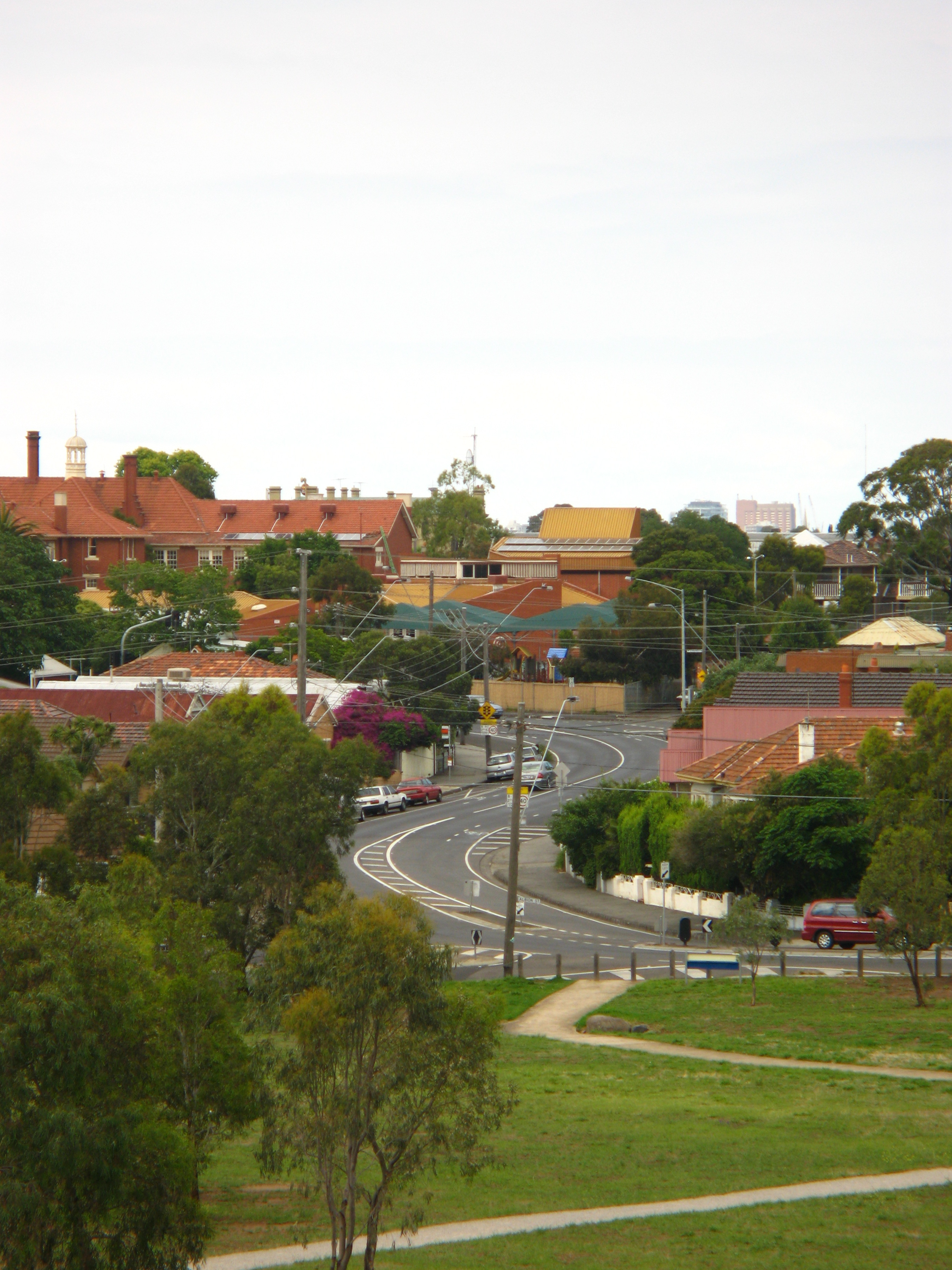 The north end of Nicholson Street, Brunswick East, taken from Jones Park Hill. Photo taken by Nick carson in December 2009.